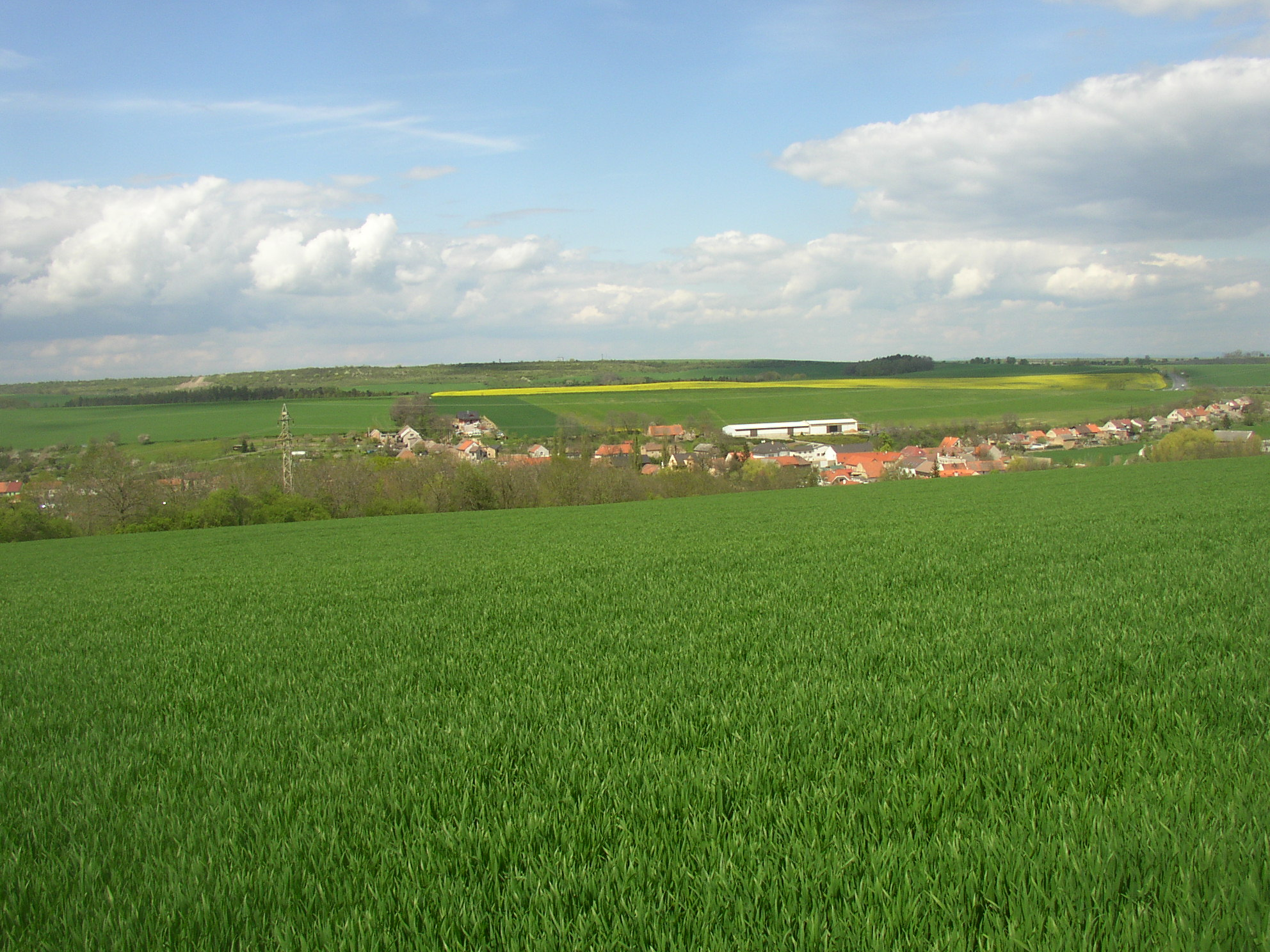 Jemníky, Kladno District, Czech Republic. A general view of the village from the south.